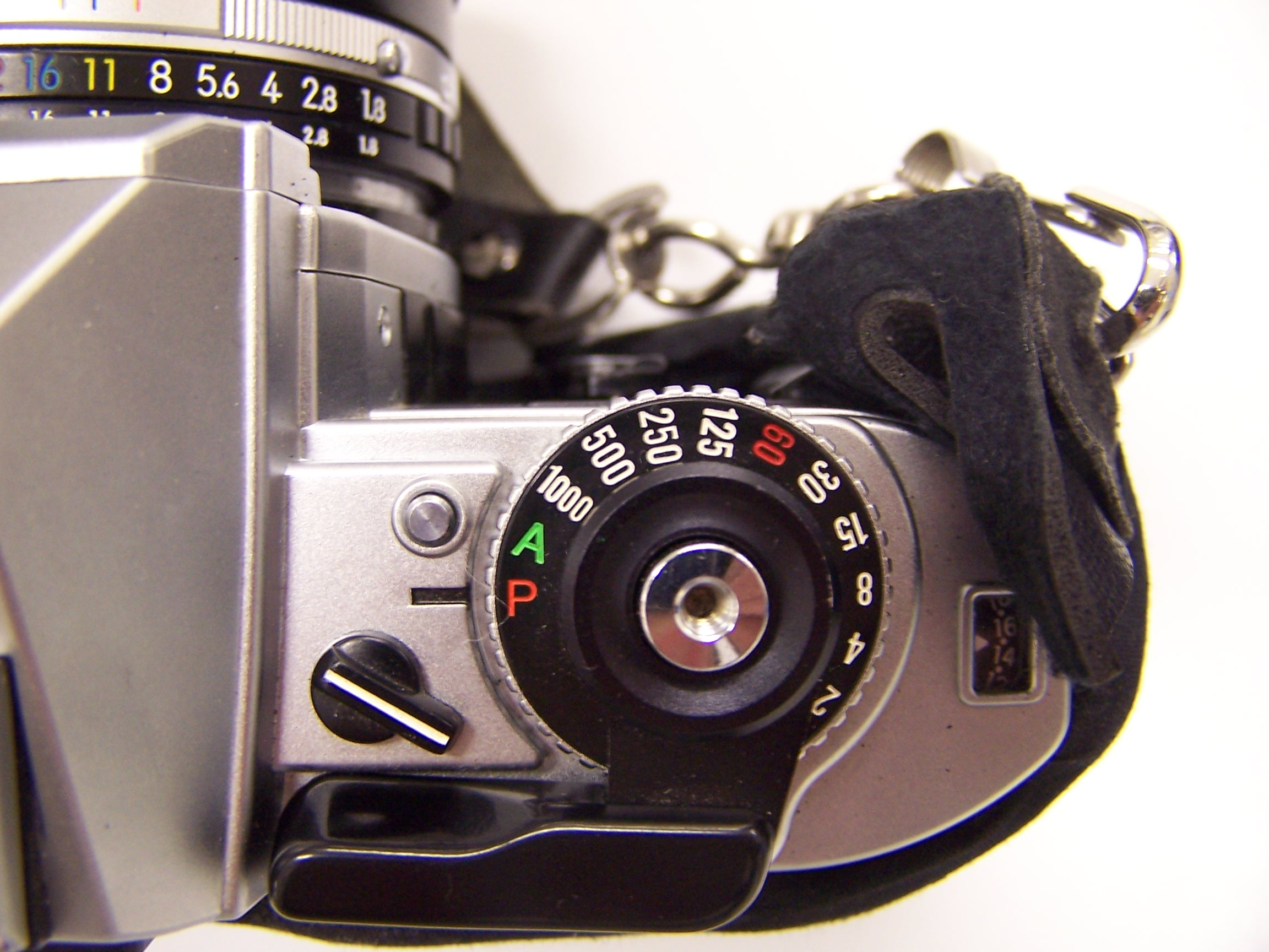 Nikon FG shutter dial - 1s, M90 and B settings concealed by film winder arm